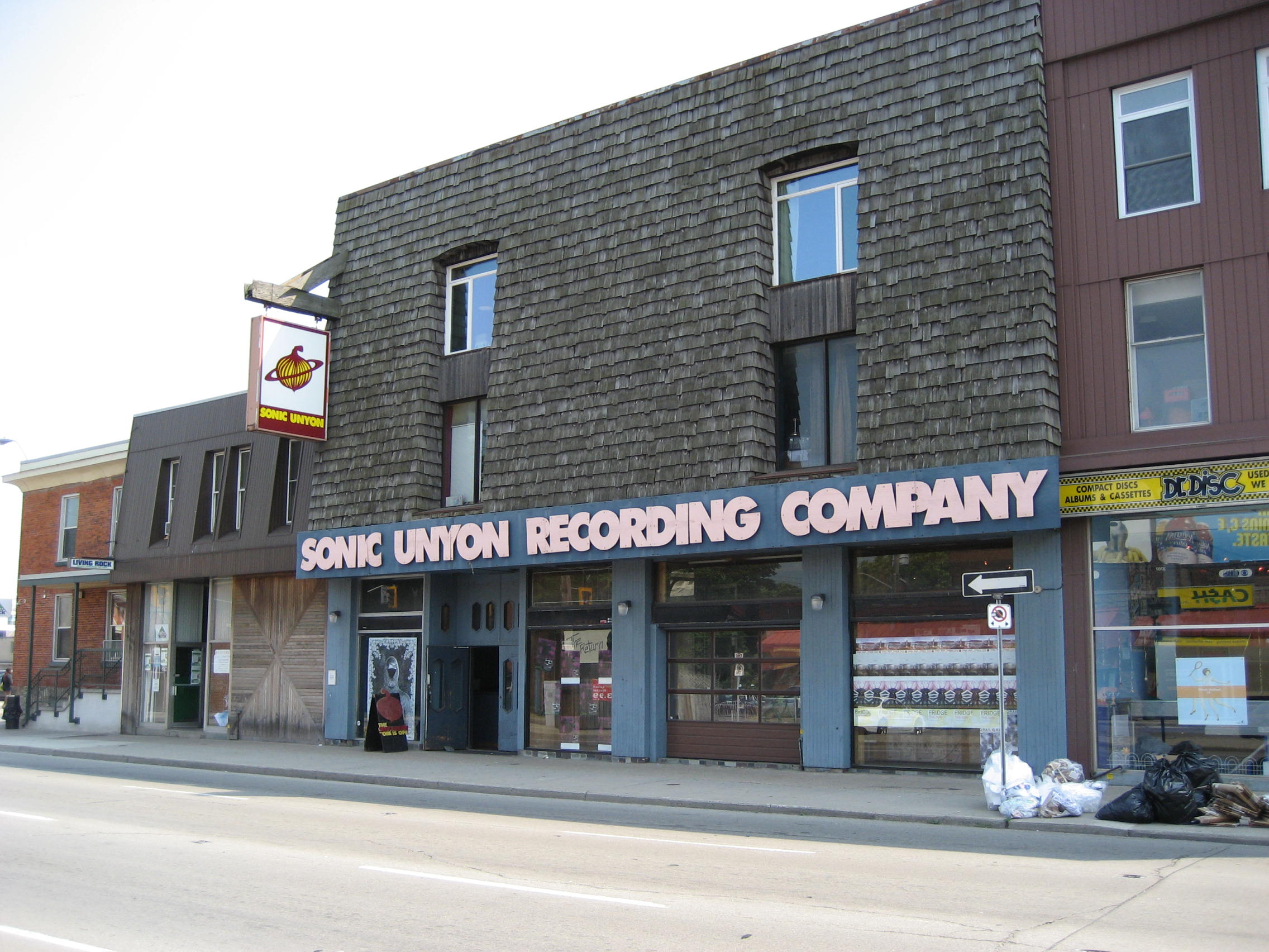 Sonic Unyon Recording Company, Wilson Street, downtown Hamilton, Ontario